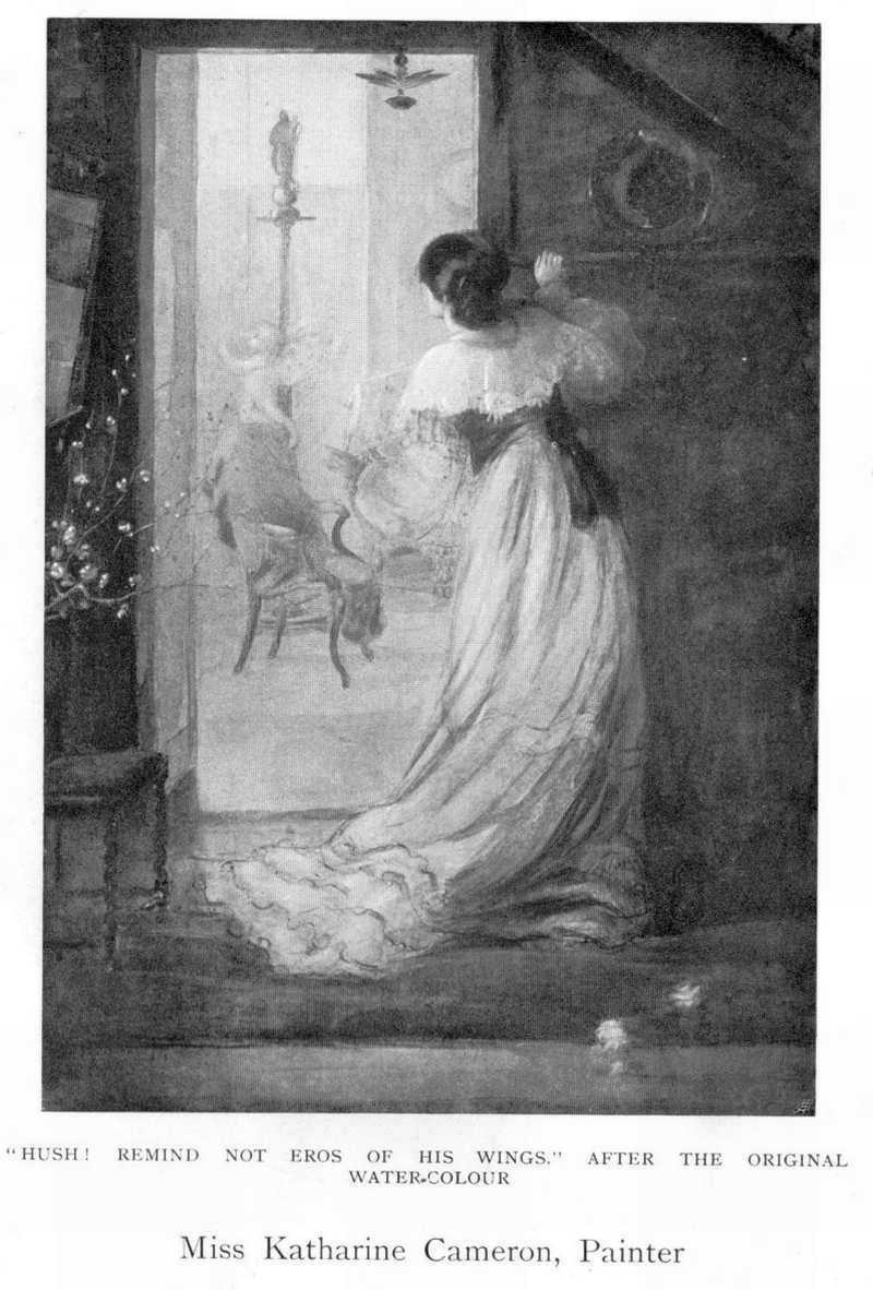 1905 print after page of Women painters of the world, from the time of Caterina Vigri, 1413-1463, to Rosa Bonheur and the present day, by Walter Shaw Sparrow, The Art and Life Library, Hodder & Stoughton, 27 Paternoster Row, London